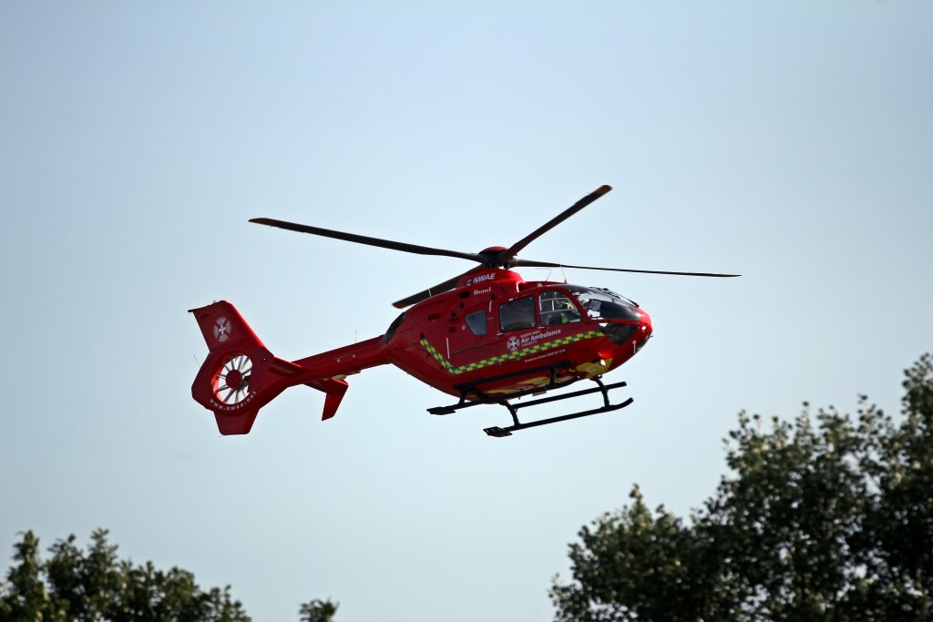 North West Air Ambulance helicopter, G-NWAE, Seacombe